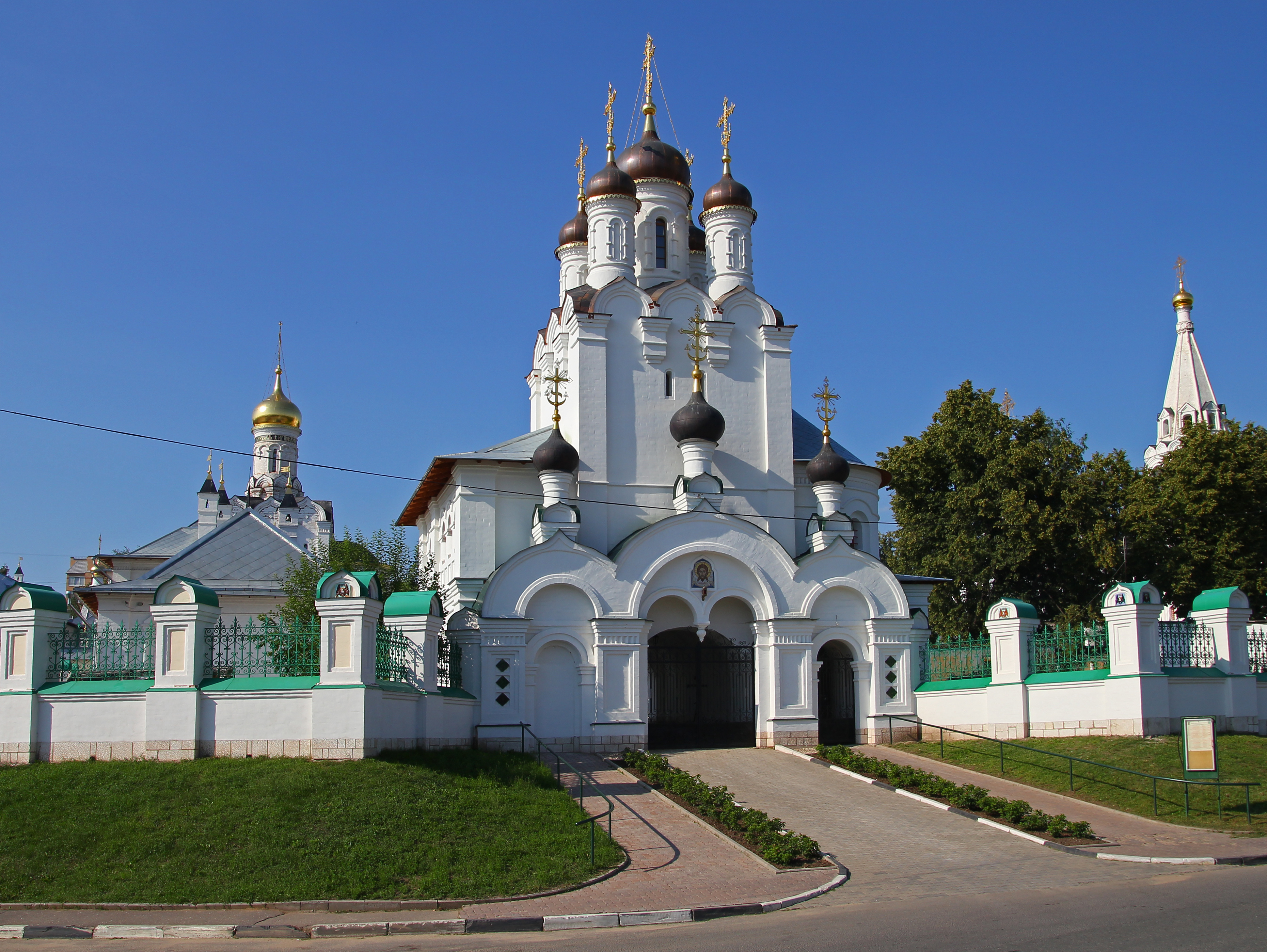 View on the churches of Pavlovskaya Sloboda (Moscow Oblast, Russia)